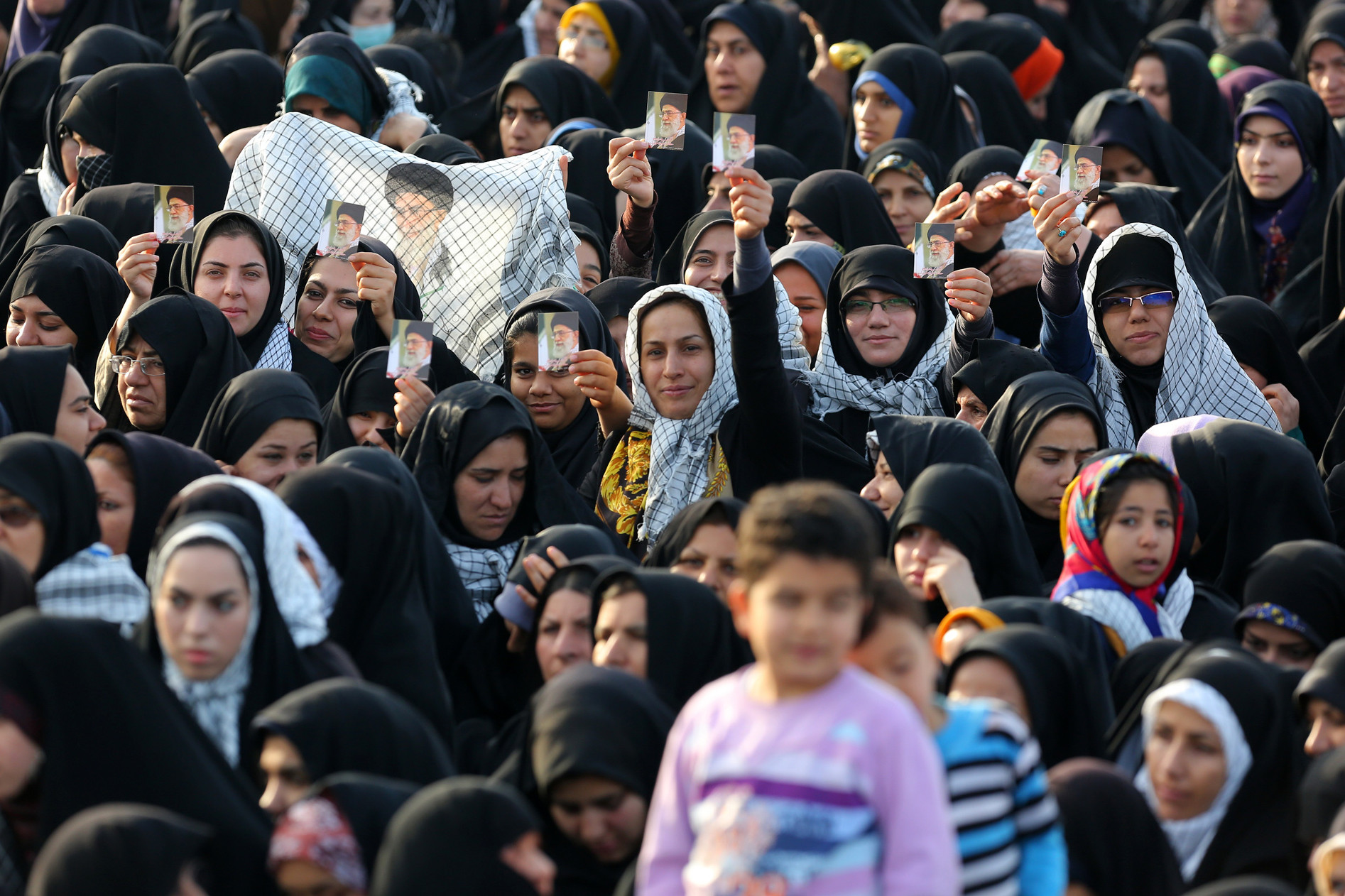 Presence and Speeche of Ayatollah Seyyed Ali Khamenei in the memory of the martyrs of the eastern Karun in the Darkhoveyn Operational Zone In the crowd convoy of the Rahian-e Noor, Nowruz 2014